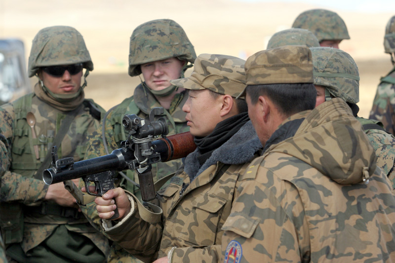 A Mongolian soldier explains to a group of Marines how to fire a soviet-made-RPG during a threat weapons class.